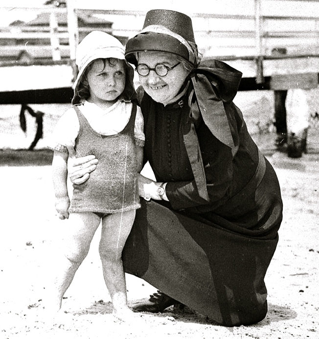 Salvation Army picnic, Clifton Gardens